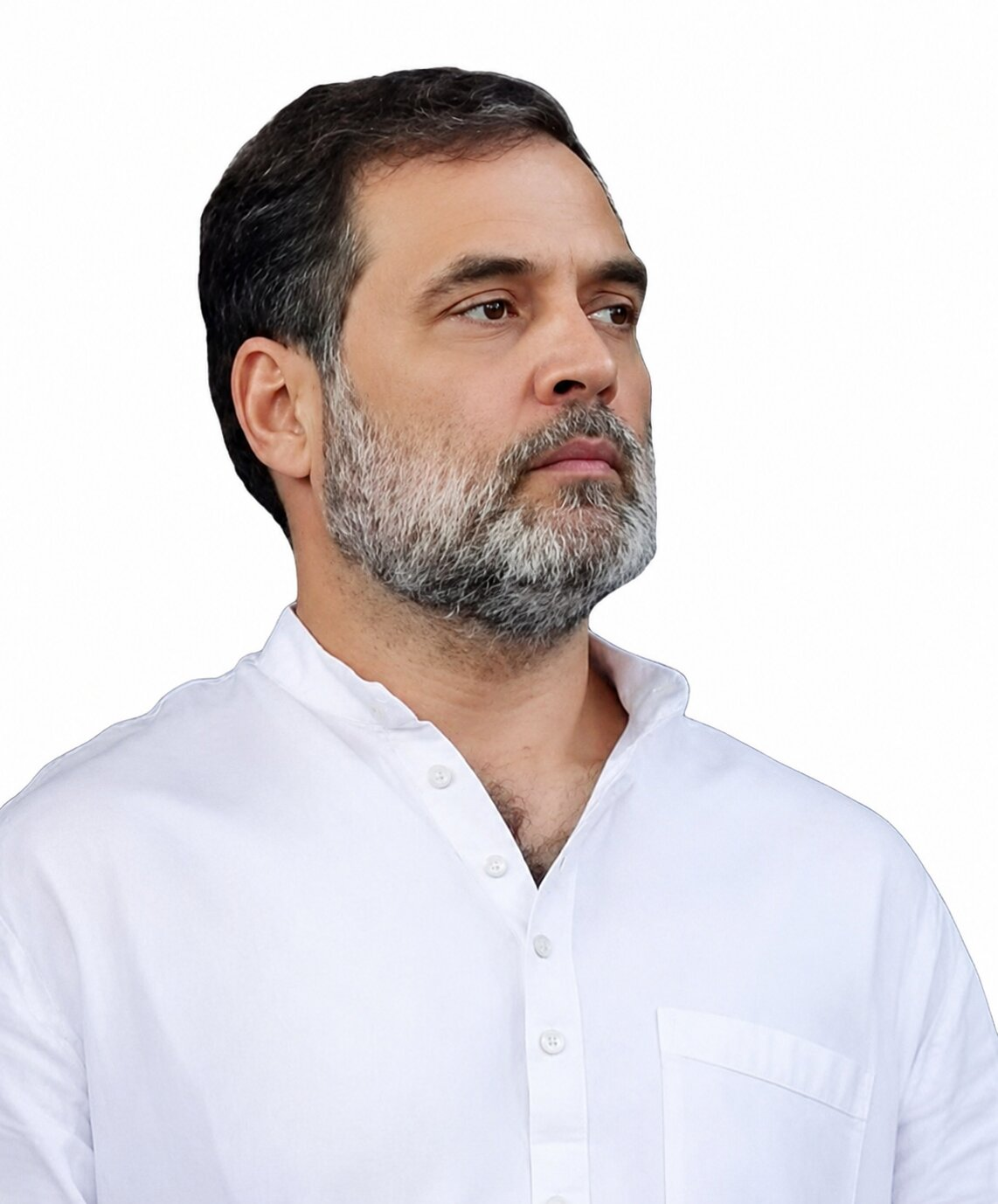 This is the image of the Indian politician Rahul Gandhi. This is the image which needs to replace the current image of his on the wikipedia Rahul Gandhi page.